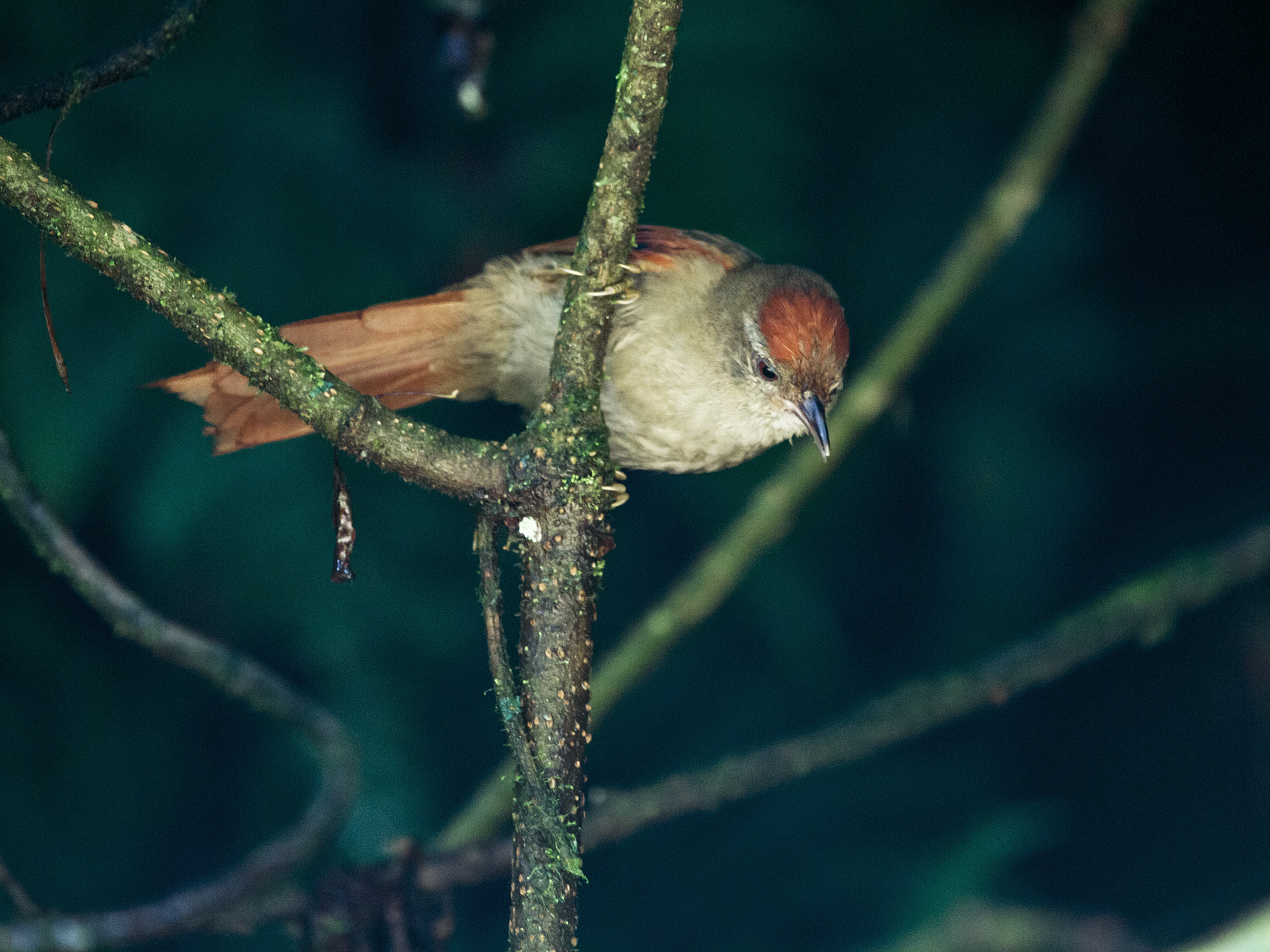 Ash-browed Spinetail from the Manú Road, Cusco, Peru.